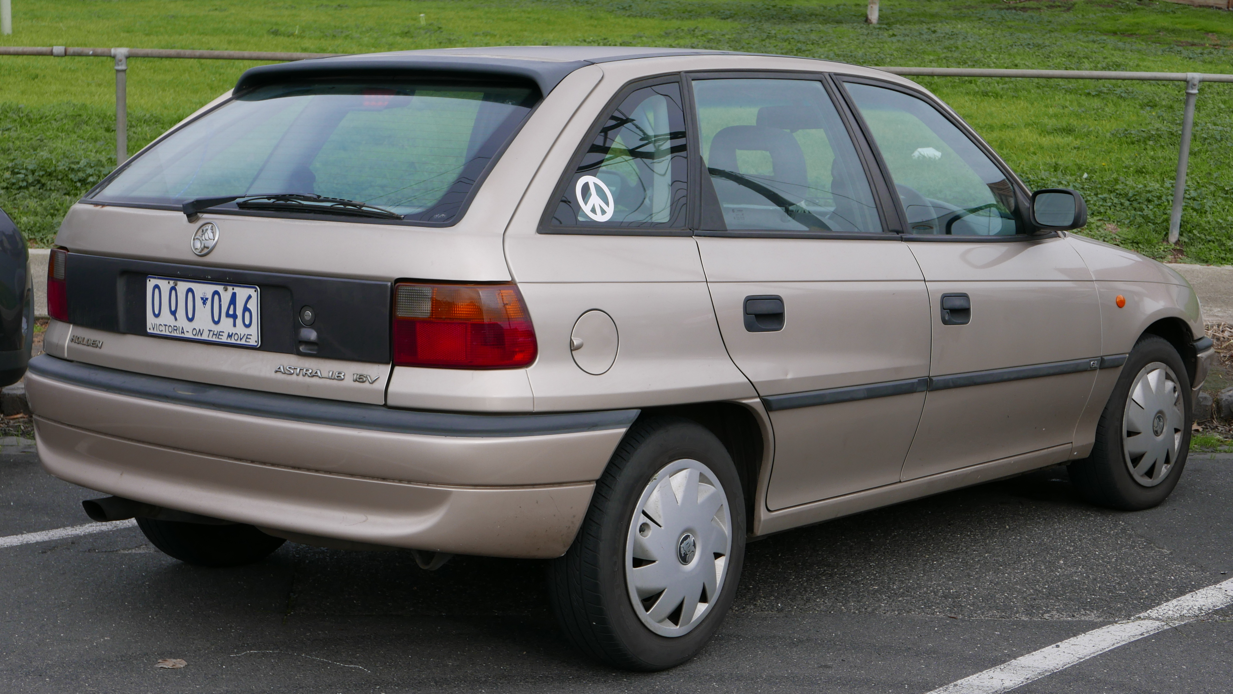 1997 Holden Astra (TR) GL 5-door hatchback. Photographed in Brunswick East, Victoria, Australia. Vehicle registration enquiry results Jurisdiction Victoria Registration OQO046 Chassis code W0L0TFF68W8010537 Engine code C18SEL25035223 Compliance date 1997-12 Year of manufacture 1998 (not a typo)